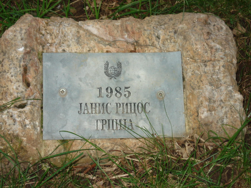 Struga Poetry Evenings ( Струшки вечери на поезијата ), Struga, Republic of Macedonia